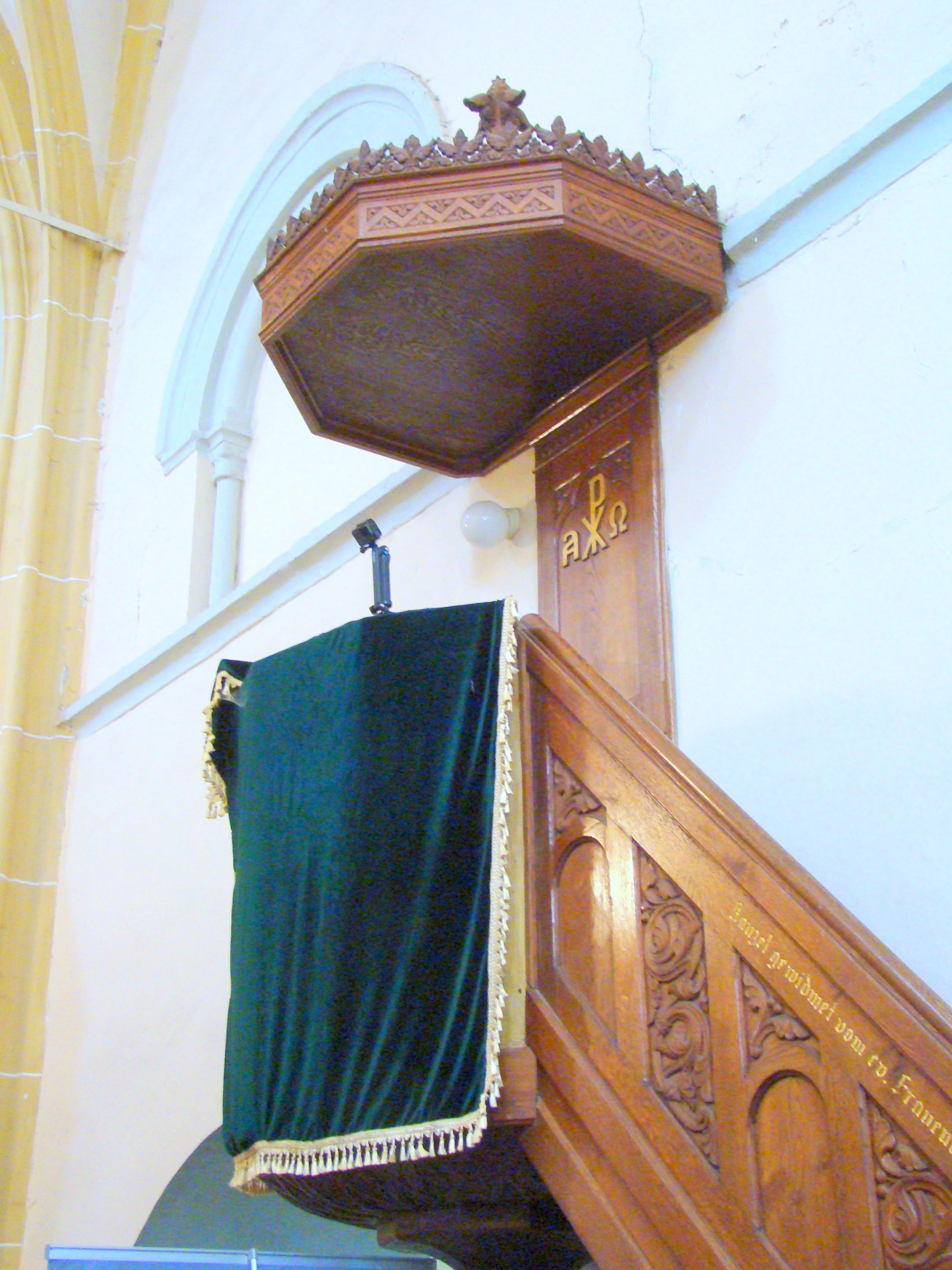 Lutheran church in Feldioara, Brașov County, Romania